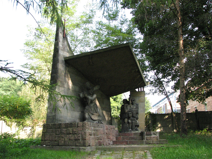 Calvary in Katowice Panewniki, Chapel of the Rosary - The fourth sorrowful mystery "Carrying of the Cross". Completed in XX century.